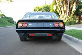 Ferrari 412 (1985–1989)